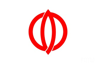 Flag of Yugawara Kanagawa